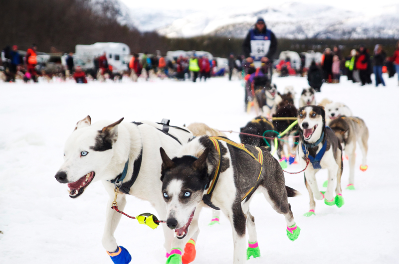 Picture from Finnmarksløpet